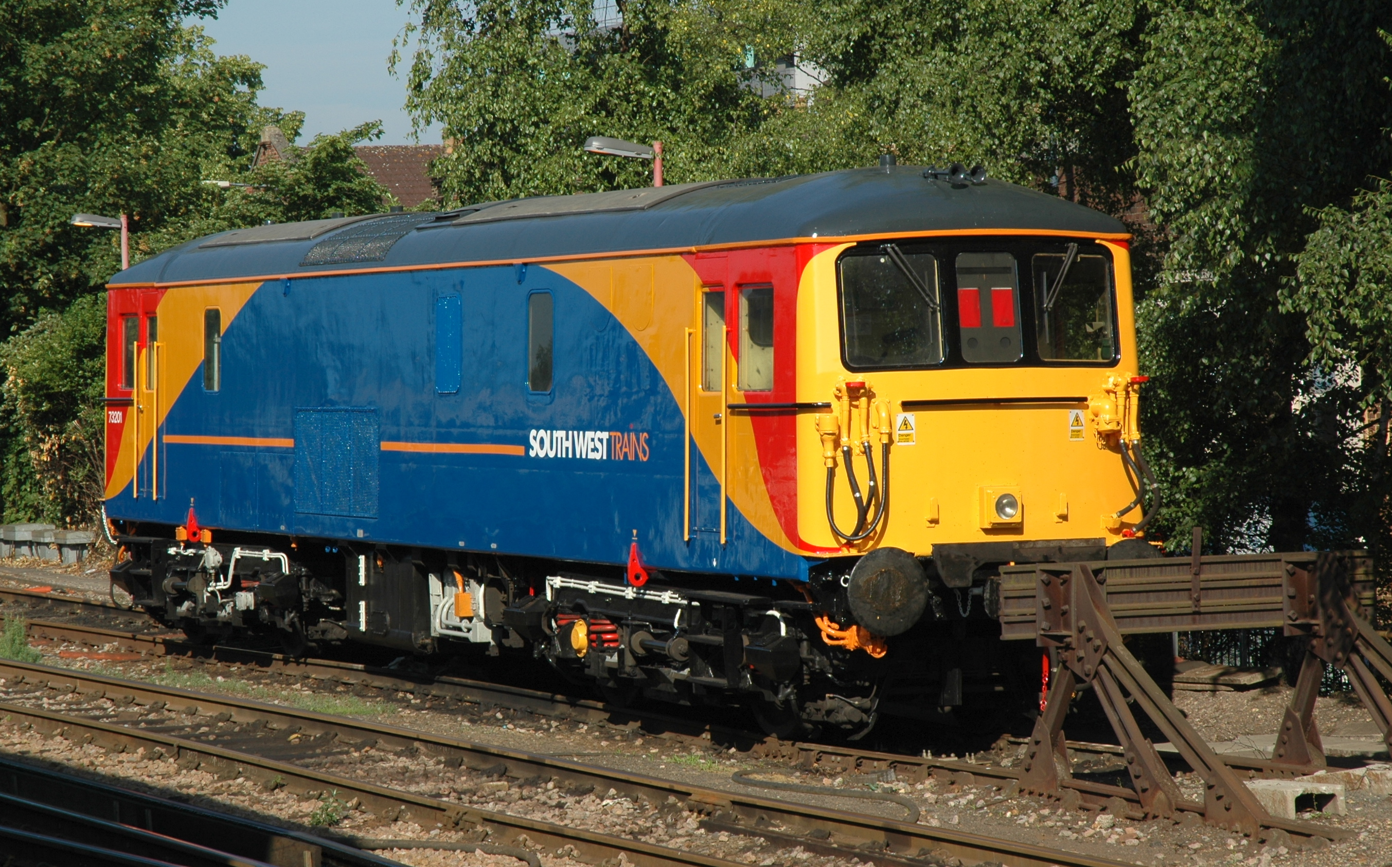 73201, one of South West Trains' rescue locomotives, basks in the sun at Woking station.